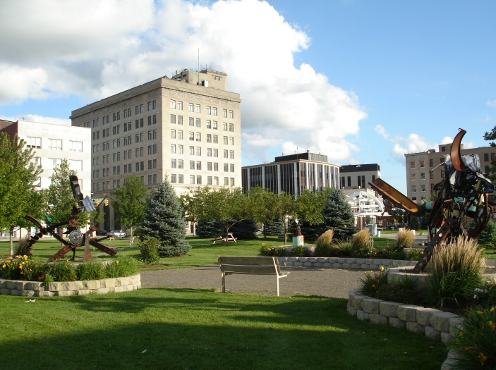 Late afternoon view of downtown Hammond, Indiana Photograph and upload by John Delano of Hammond, Indiana, 22 August 2005 That whole area is now a parking lot for a charther school. Google it and see for yourself.